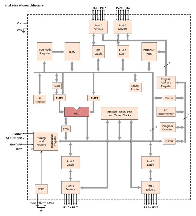 Arkitektura e Intel 8051